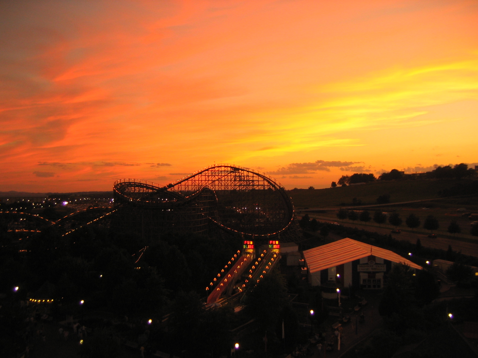 Hersheypark Midway America